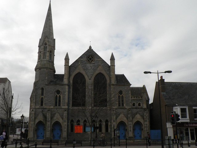 Poole: Methodist Church An imposing frontage among the shopfronts of the High Street.